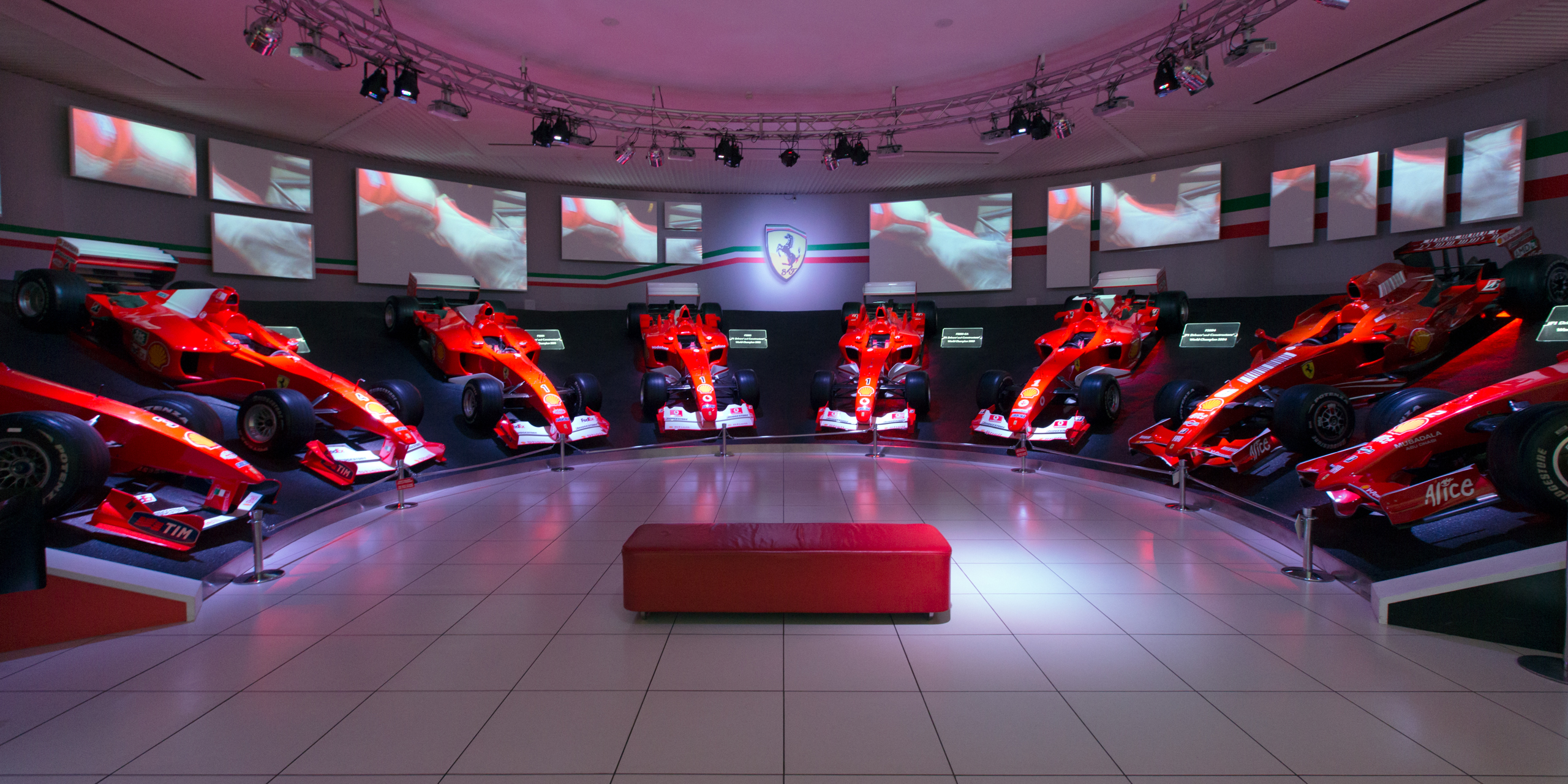 Ferrari Formula One championshio winning cars, left to right: F399, F1-2000, F2001, F2002, F2003-GA, F2004, F2007, F2008